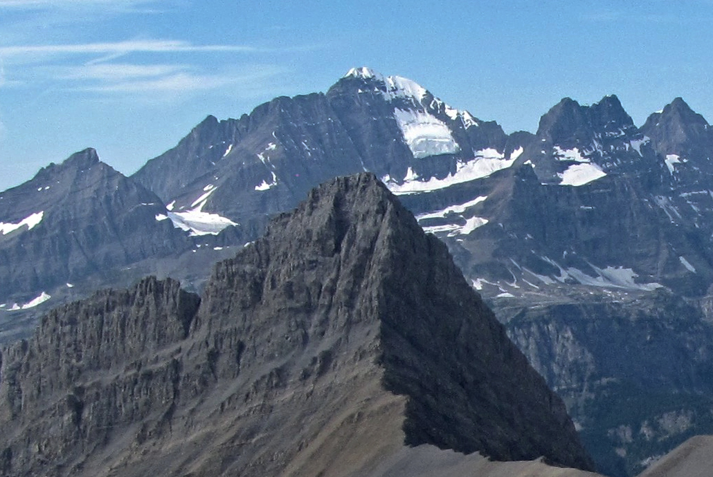 Mount King George Northover ridge